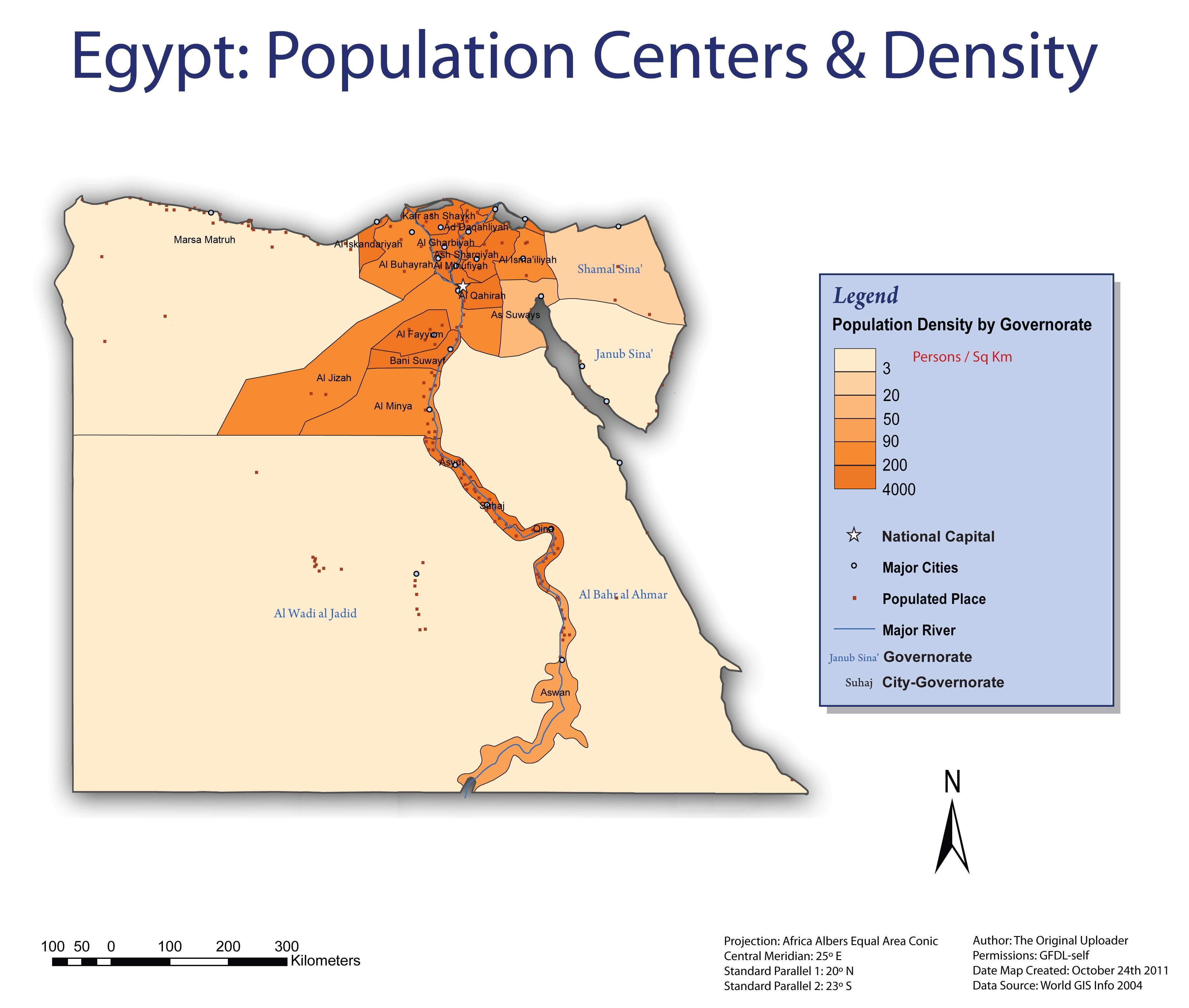 Population Distribution of Egypt